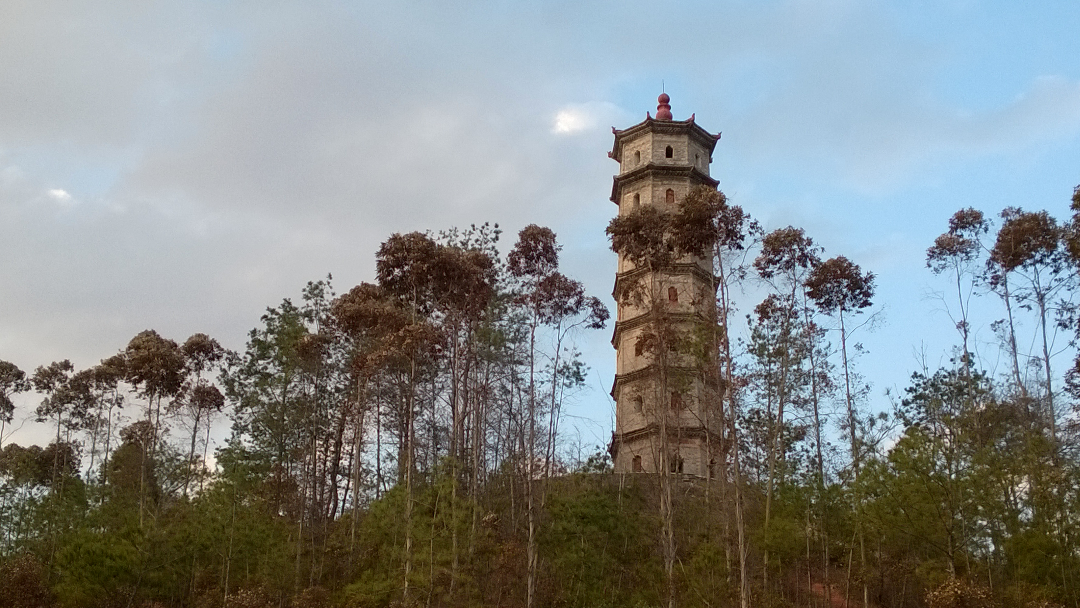 Zhuhua Pagoda, locating in Butou Township, Xingguo County, Ganzhou City, Jiangxi Province.